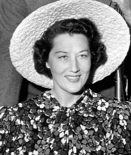 Dora Foster, the mother of teenager Judy Foster in the radio program A Date with Judy.